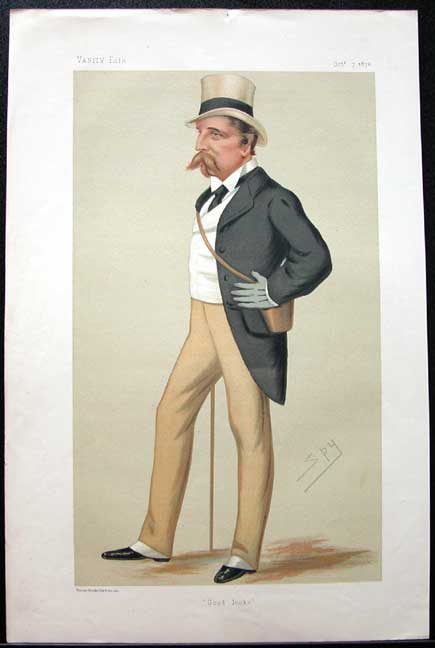 Men of the Day No.139: Caricature of Viscount Cole. Caption reads: "Good Looks"